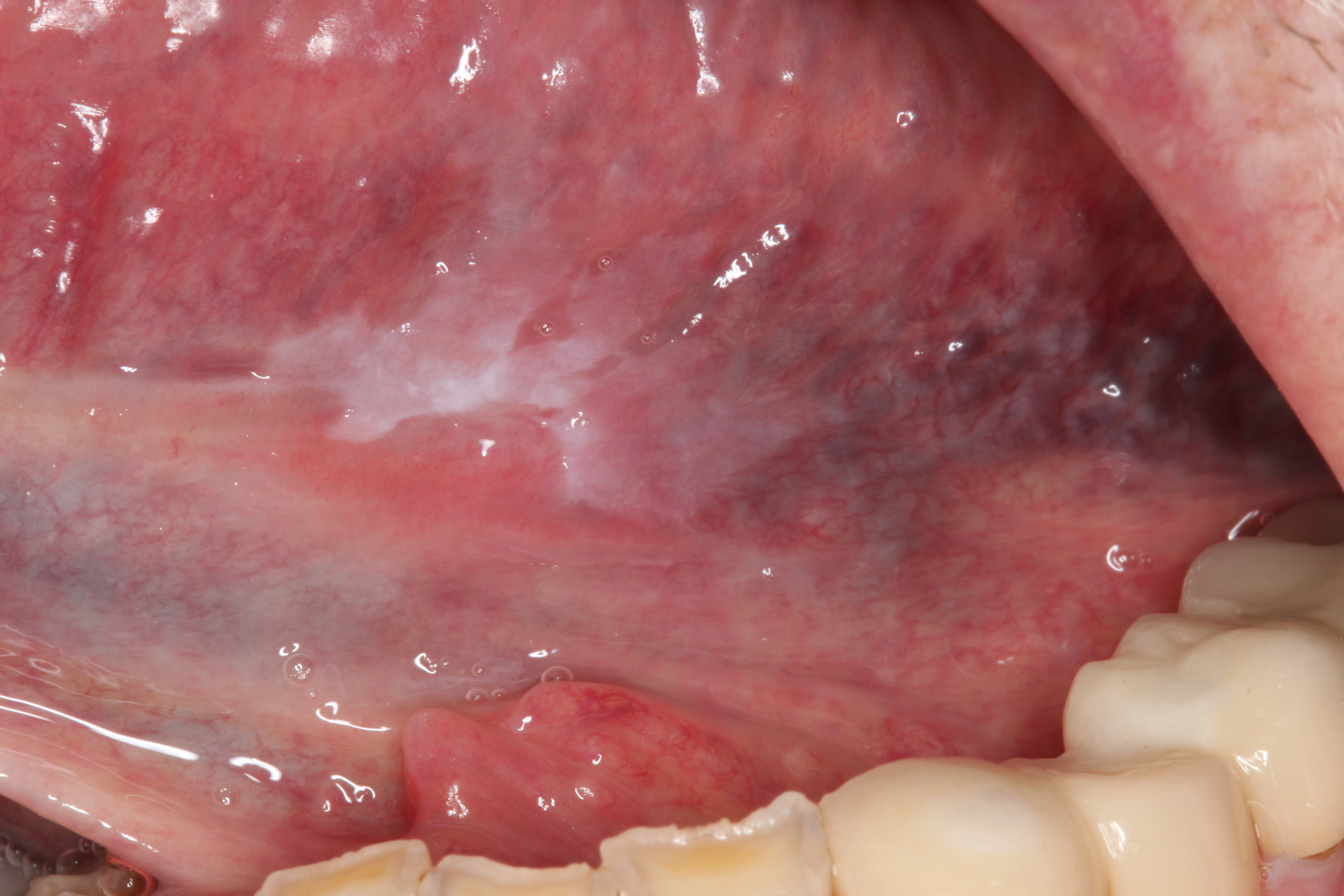 Picture of the left tongue showing a 1cm white patch, previously biopsied showing severe dysplastia